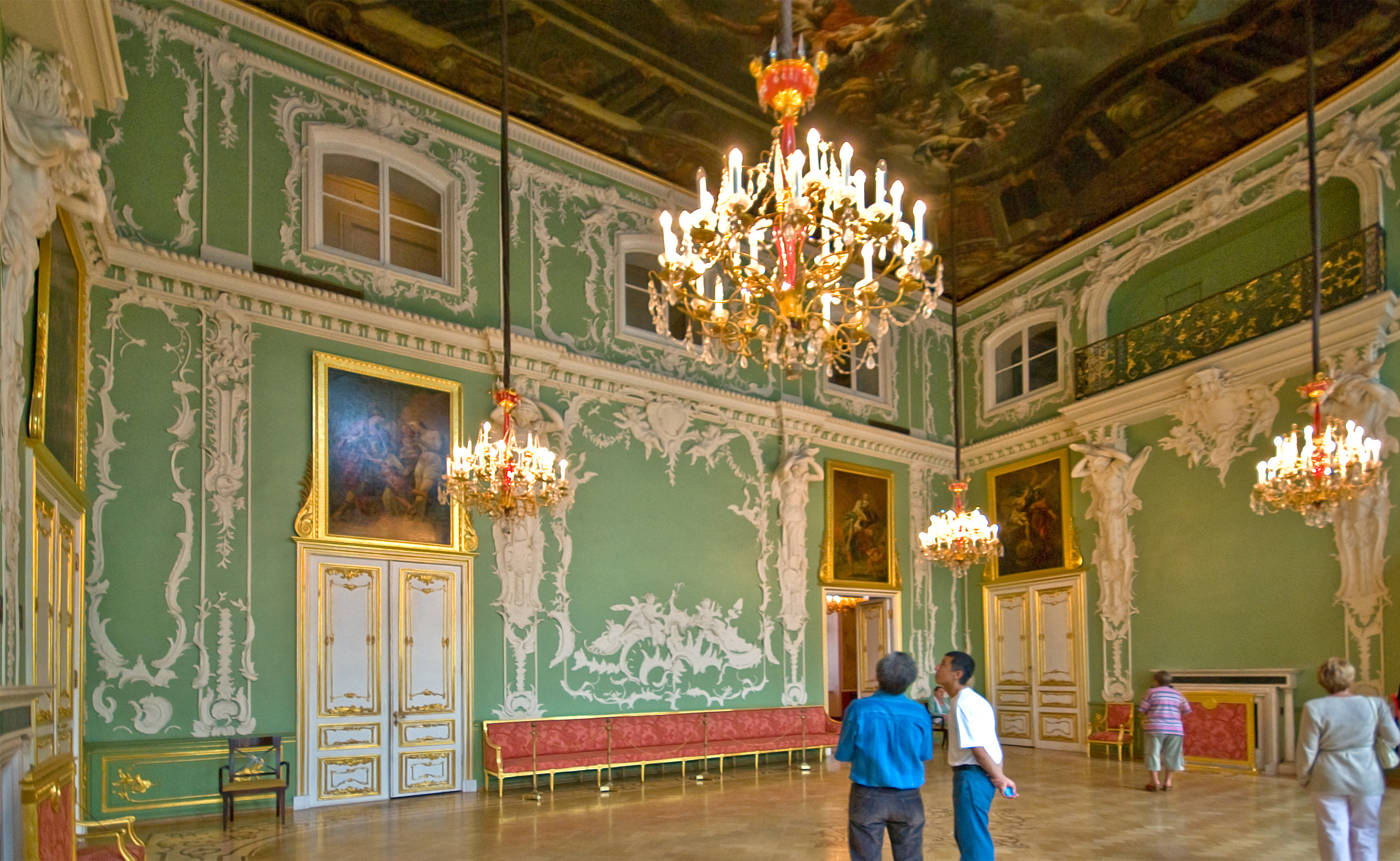 GRAND HALL, Stroganov Palace The interior was designed after the architect Francesco Rastreili's project in the 1750s who had not Finished his work. The plafond represents a painterly composition painted by Italian master Valeriani (central part) and Antonio Pcresitotti. Dessus des portes (paintings above the doors) were painted by unknown master and show Aeneas' story. The restoration was carriied oui with intervals in 1993-2003.